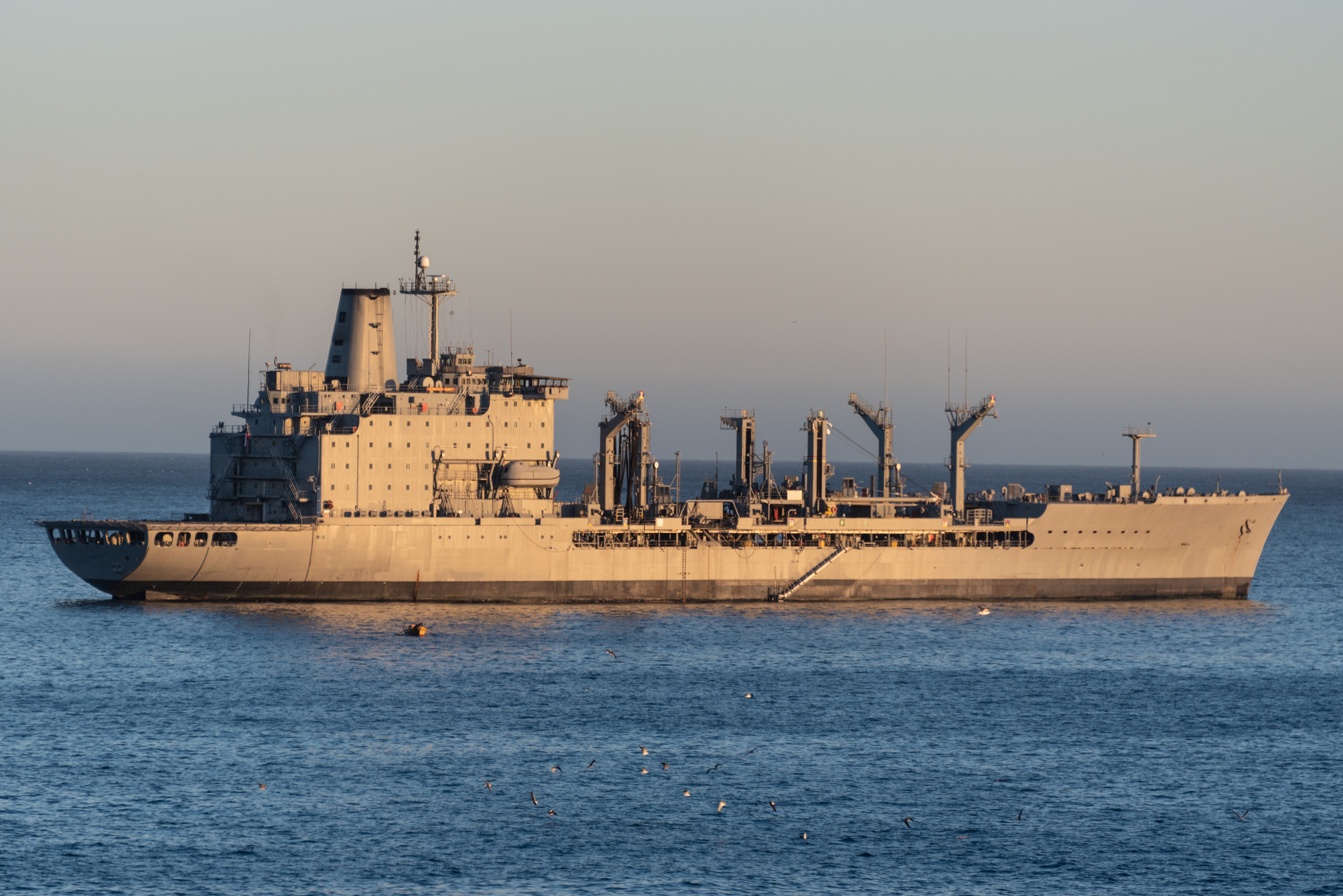 Chilean Navy replenishment oiler, CNS ALMIRANTE MONTT AO-52 - IMO 8325559 (ex USNS ANDREW J. HIGGINS Andrew T-AO-190), just outside the harbor at Valparaiso, Chile on March 19th, 2019.